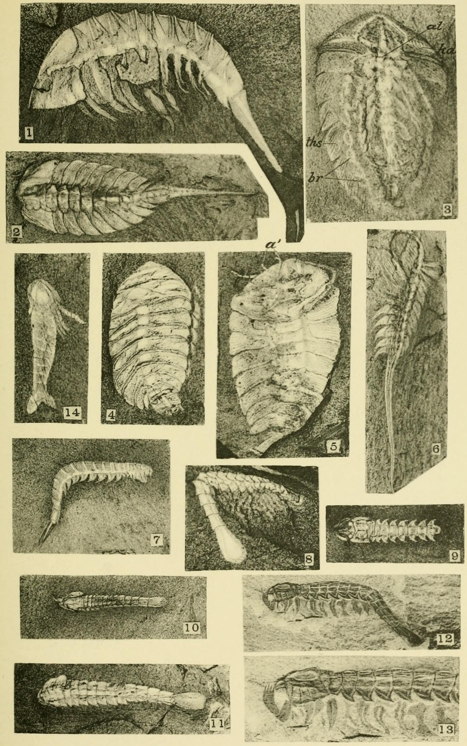 Plate 29: Middle Cambrian Crustaceans (Molaria, Habelia, and Yohoia) 1. Molaria spinifera Walcott = Molaria spinifera Walcott, 1912 2. Molaria spinifera Walcott = Molaria spinifera Walcott, 1912 3. Molaria spinifera Walcott = Molaria spinifera Walcott, 1912 4. Molaria spinifera Walcott = Molaria spinifera Walcott, 1912 5. Molaria spinifera Walcott = Molaria spinifera Walcott, 1912 6. Habelia optata Walcott = Habelia optata Walcott, 1912 7. Yohoia tenuis Walcott = Yohoia tenuis Walcott, 1912 8. Yohoia tenuis Walcott = Yohoia tenuis Walcott, 1912 9. Yohoia tenuis Walcott = Yohoia tenuis Walcott, 1912 10. Yohoia tenuis Walcott = Yohoia tenuis Walcott, 1912 11. Yohoia tenuis Walcott = Yohoia tenuis Walcott, 1912 12. Yohoia tenuis Walcott = Yohoia tenuis Walcott, 1912 13. Yohoia tenuis Walcott = Yohoia tenuis Walcott, 1912 14. Yohoia plena Walcott = Plenocaris plena (Walcott, 1912)